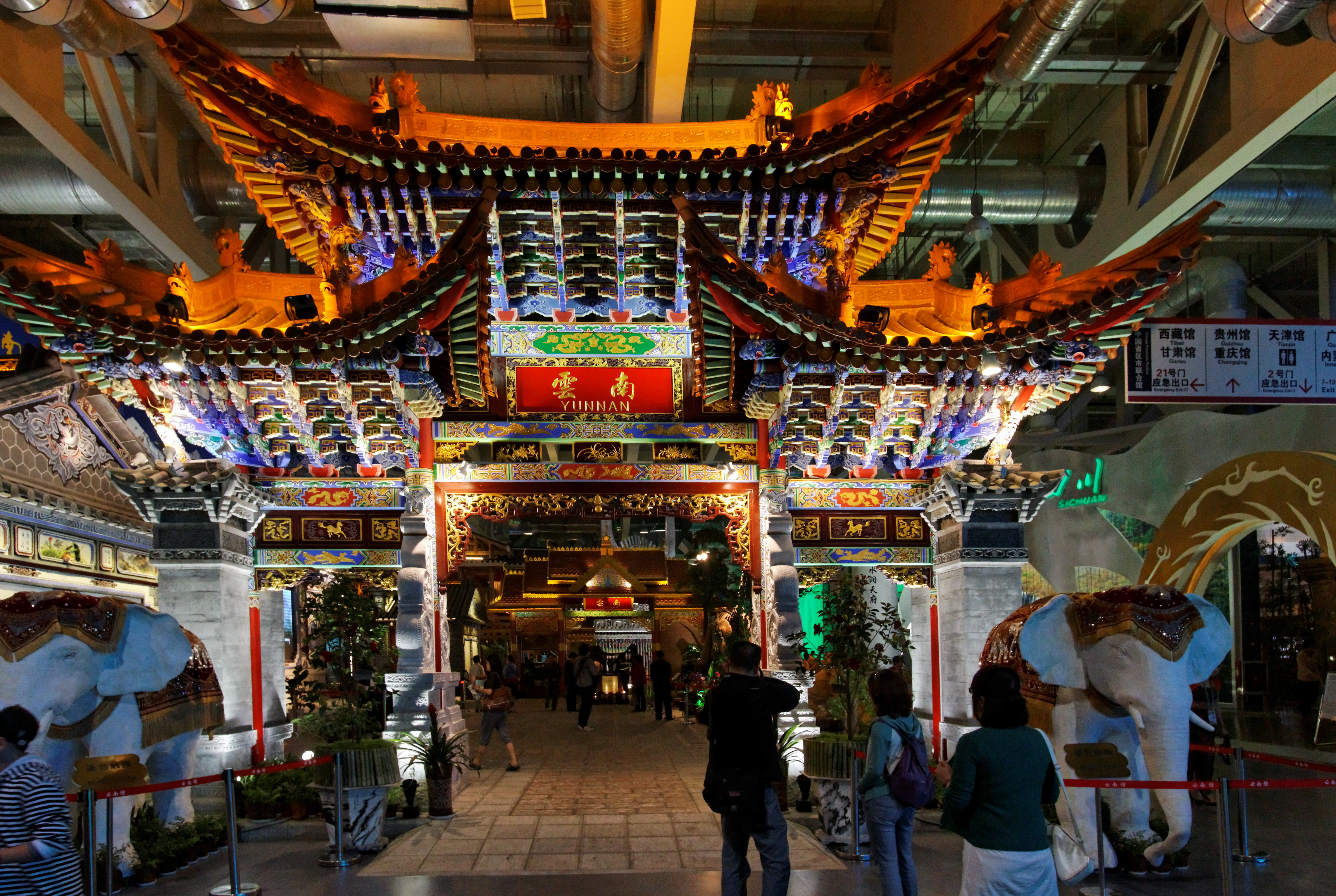 Yunnan area, China Pavilion of Expo 2010